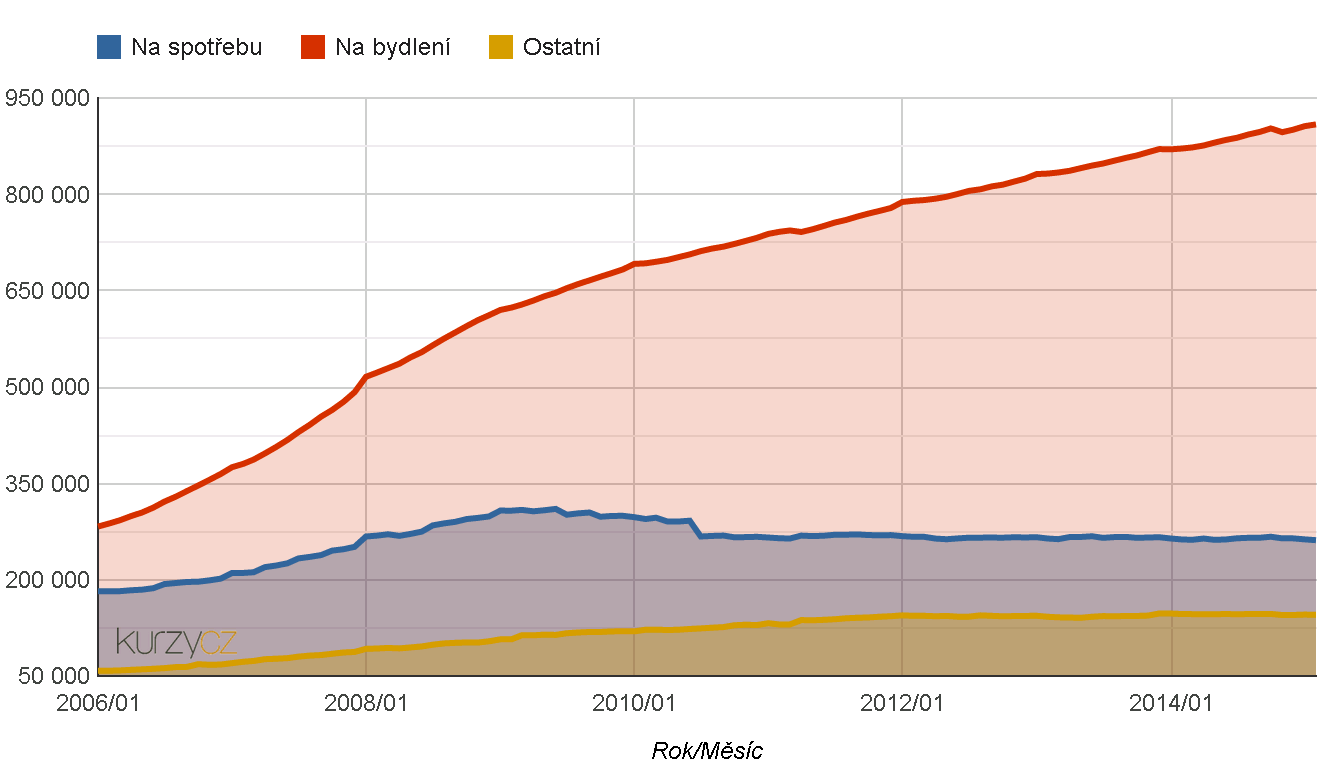 Zadlužení domácností